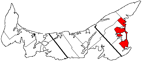 Adapted from existing Prince Edward Island election results maps to depict a specific electoral district.